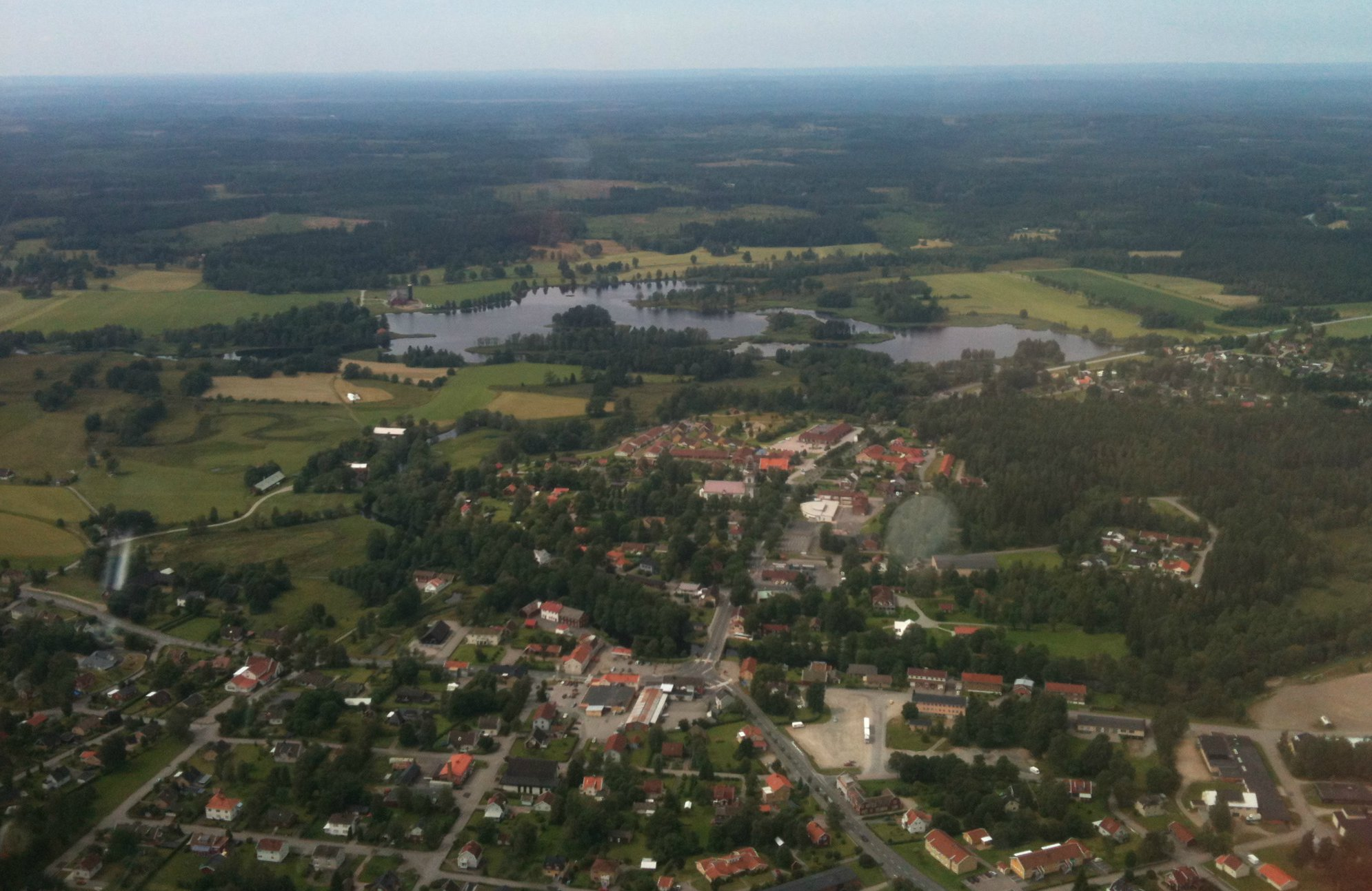 Aerial photpgraphy of Vrigstad.